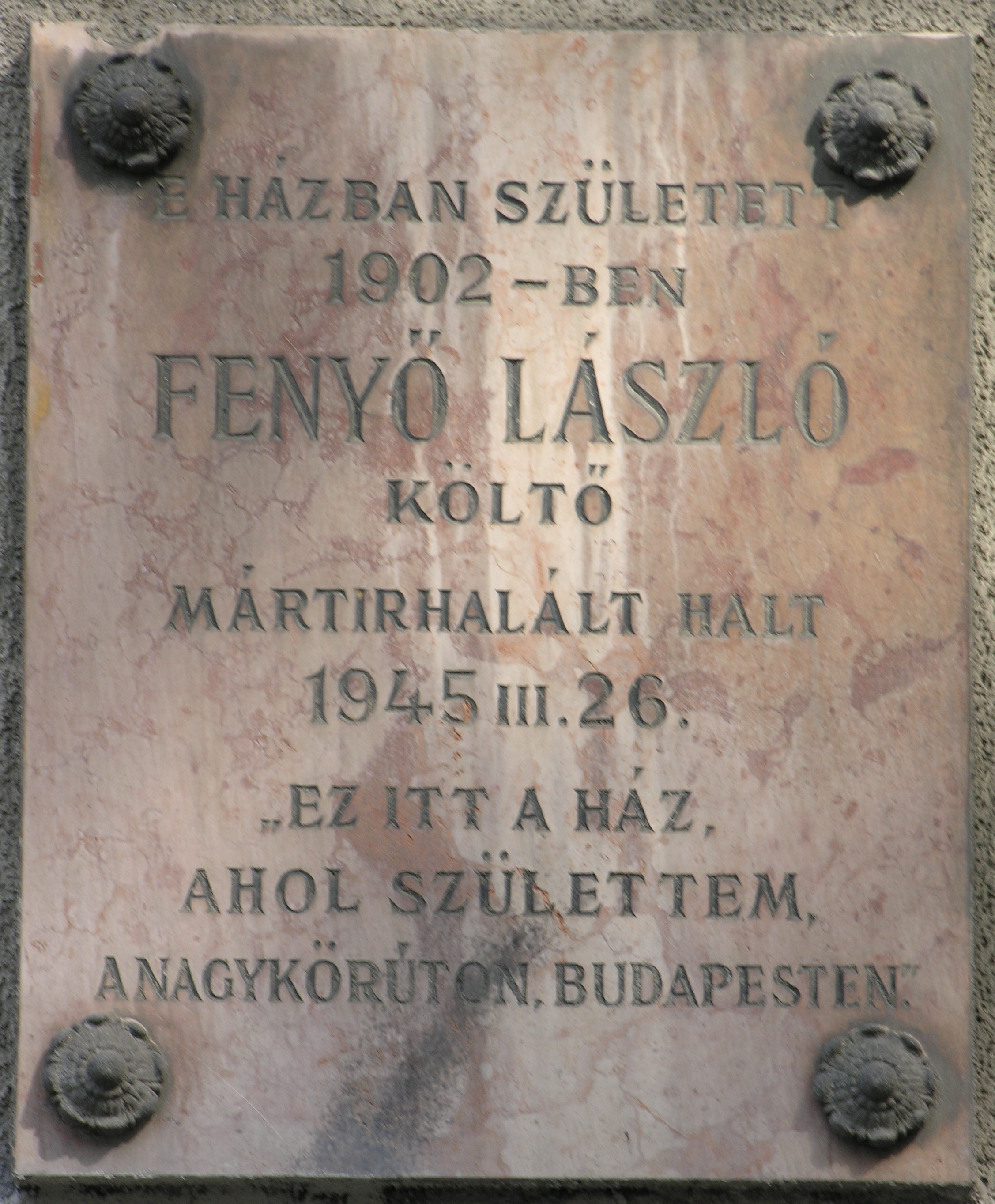 László Fenyő commemorative plaque in Budapest District VI, Teréz Boulevard No 37